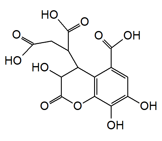 Chemical structure of chebulic acid, according to Klika, 2004